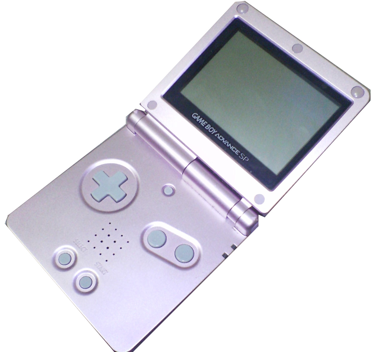 Game Boy Advance SP